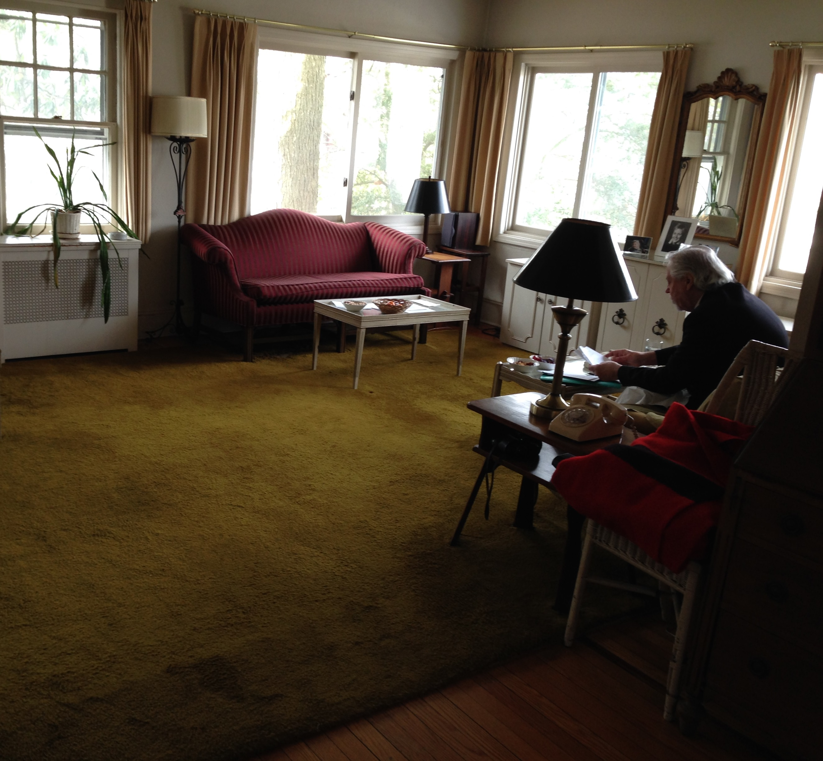 Professor Ken Young of King's College London in Leonia, New Jersey, in the US in March 2014, reading some of the mid-1950s interview notes left behind by the late Professor Warner R. Schilling of Columbia University regarding the 1950 decision by the US government to move ahead with the development of the hydrogen bomb. These interview notes would become part of the basis for the book Super Bomb: Organizational Conflict and the Development of the Hydrogen Bomb published several years later.